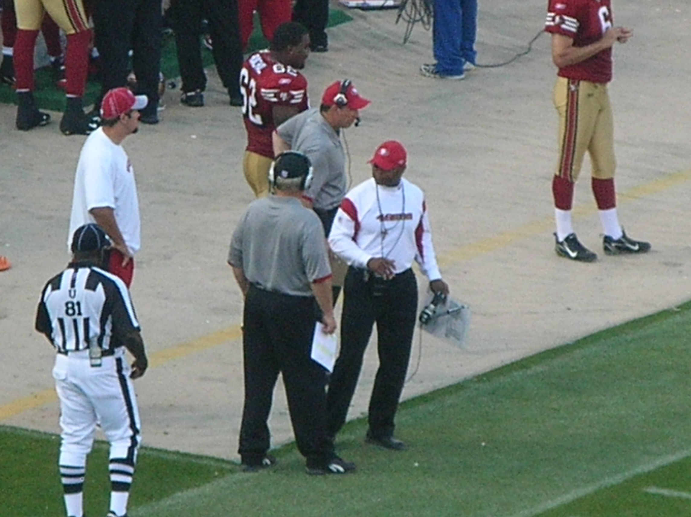 San Francisco 49ers interim head coach Mike Singletary (center, in white long sleeves) during a regular season game against the St. Louis Rams. The 49ers won 35-16.